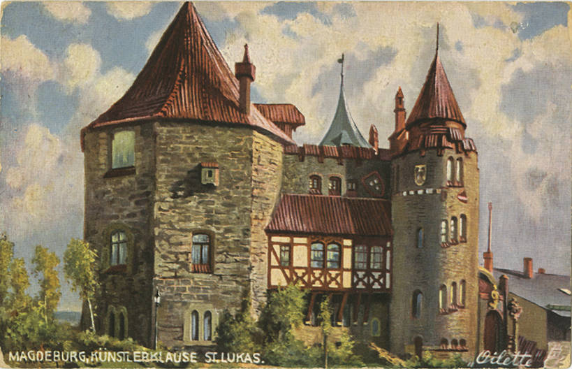 Collection " Deutscher Stadte, Magdeburg " 645B. Oilette postcard view of a Magdeburg castle.